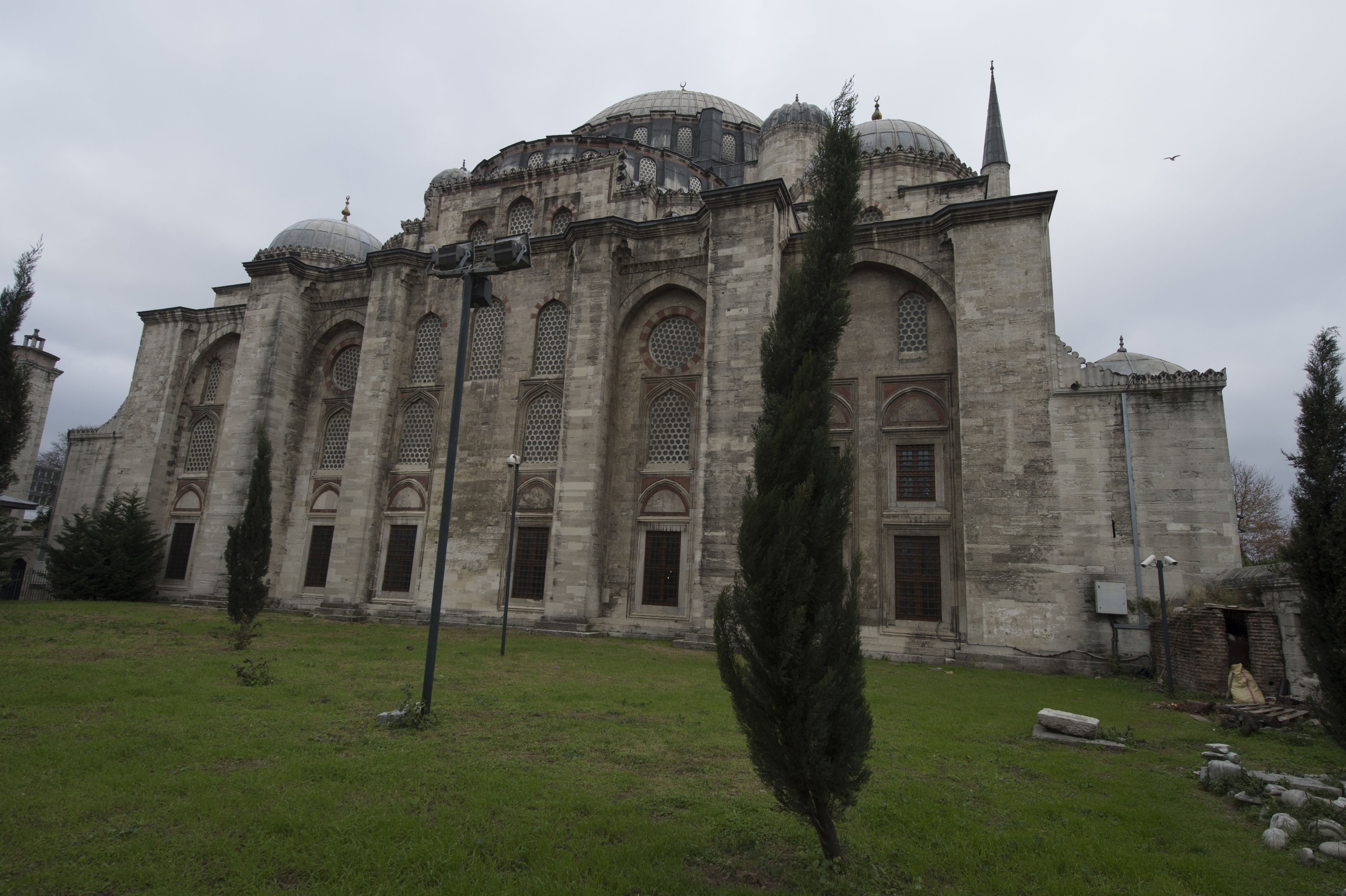 Here one looks at the south-east of the mosque.